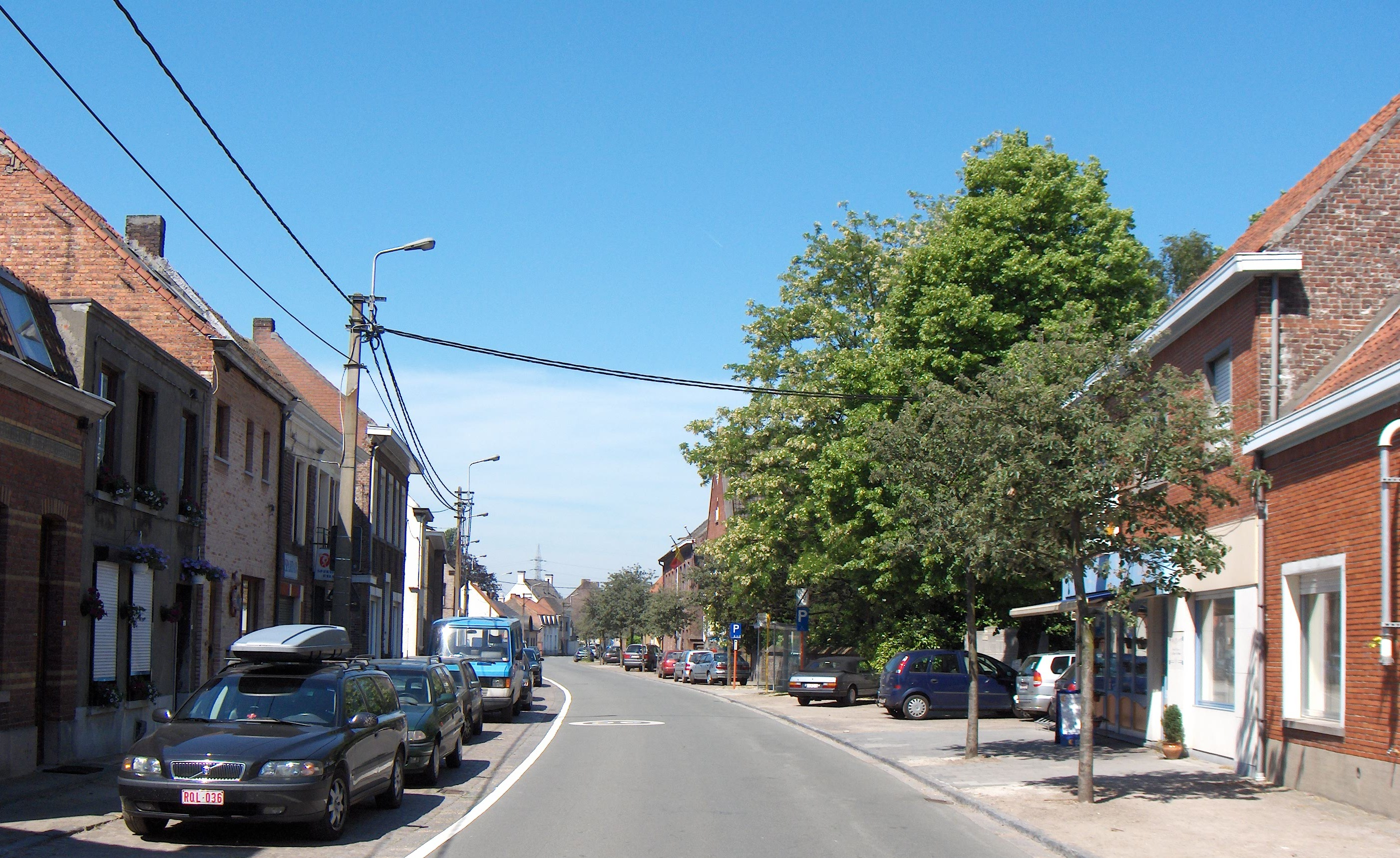 Sint-Kruis-Winkel, Gent, East Flanders, Belgium